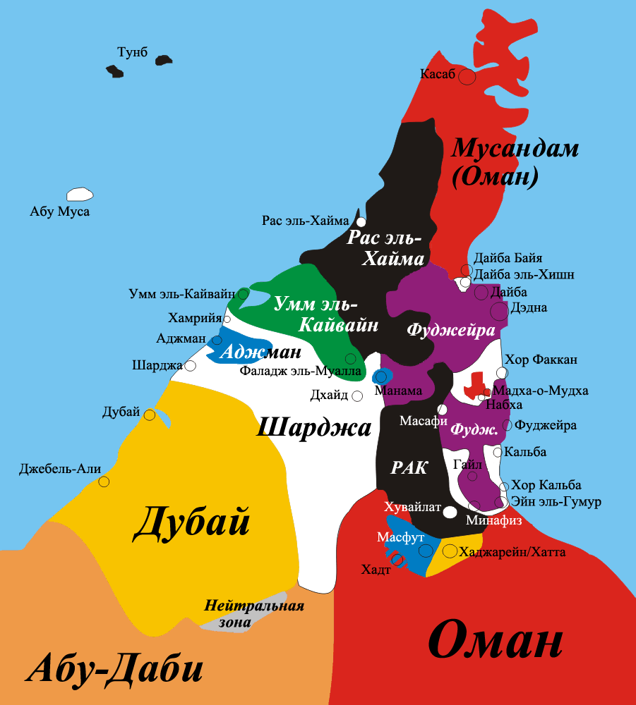 Political map of eastern part of Arabian peninsula.